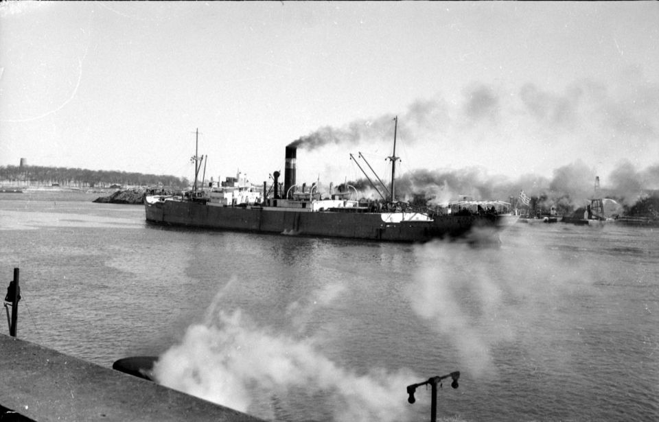 We see the ship "Mount Aetna in the port of Montreal with his smoking chimney. THE LAST OVERSEAS SHIP LEAVES (Montreal) PORT. The Greek tramp freighter MOUNT AETNA, photographed morning of 2 Dec 1937 as she steamed down river on her way to the sea. The last vessel to clear the port for overseas in 1937. She is carrying a full cargo of grain for Antwerp. Mount Aetna was preceded down-harbor by the British ship, Riley, also taking grain to Europe.[1] She later met up with U-123 in the Nort Atlantic when she picked up survivors from the Pan Norway.[2]